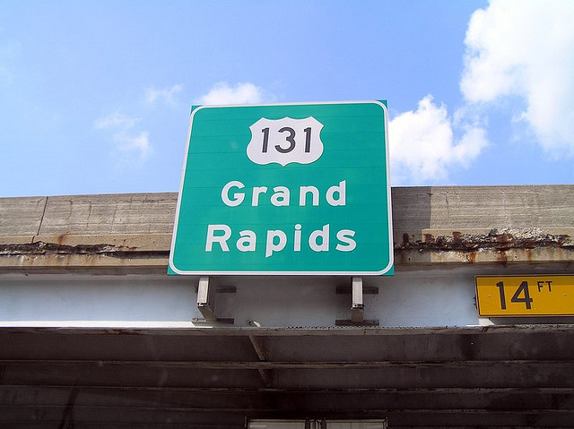 On our way!